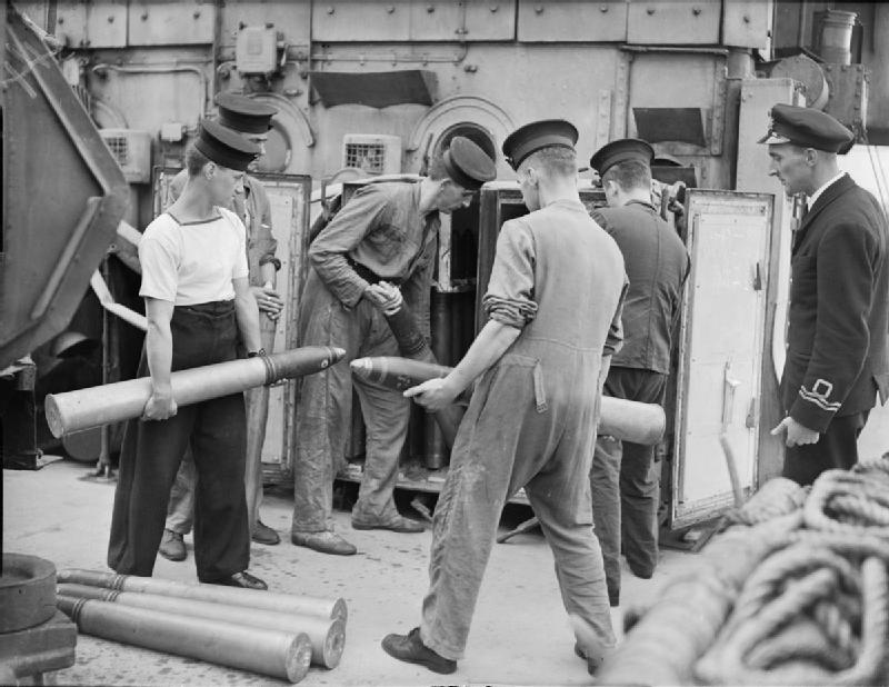 The First Lieutenant on British Kingfisher class sloop HMS Widgeon watching ammunition for a QF 4-inch Mk V gun being taken in and stored in the ready use lockers.